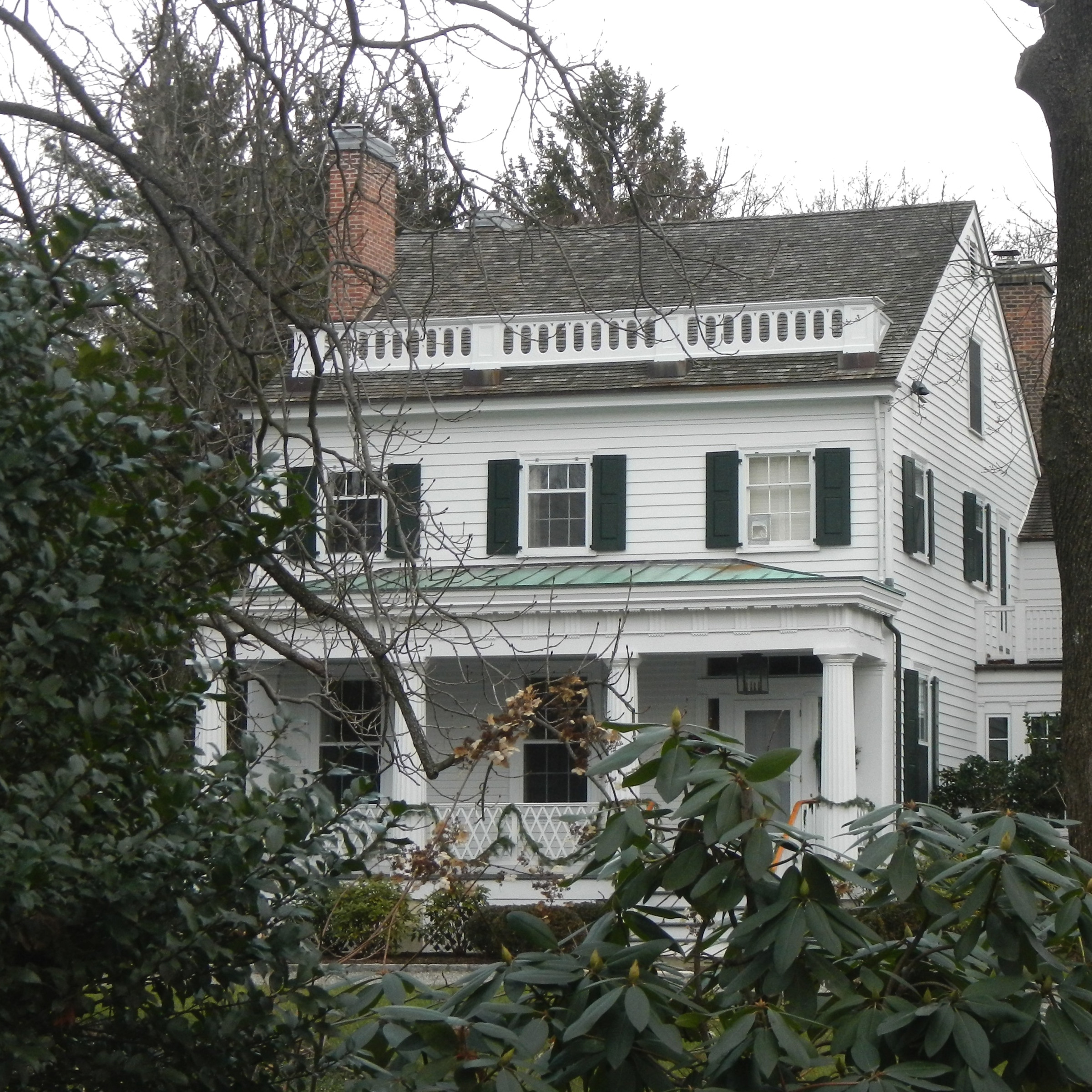 Looking east from White Plains Road on a cloudy afternoon.